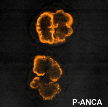 Immunofluorescence pattern produced by binding of serum from a patient with microscopic polyangiitis to ethanol-fixed neutrophils